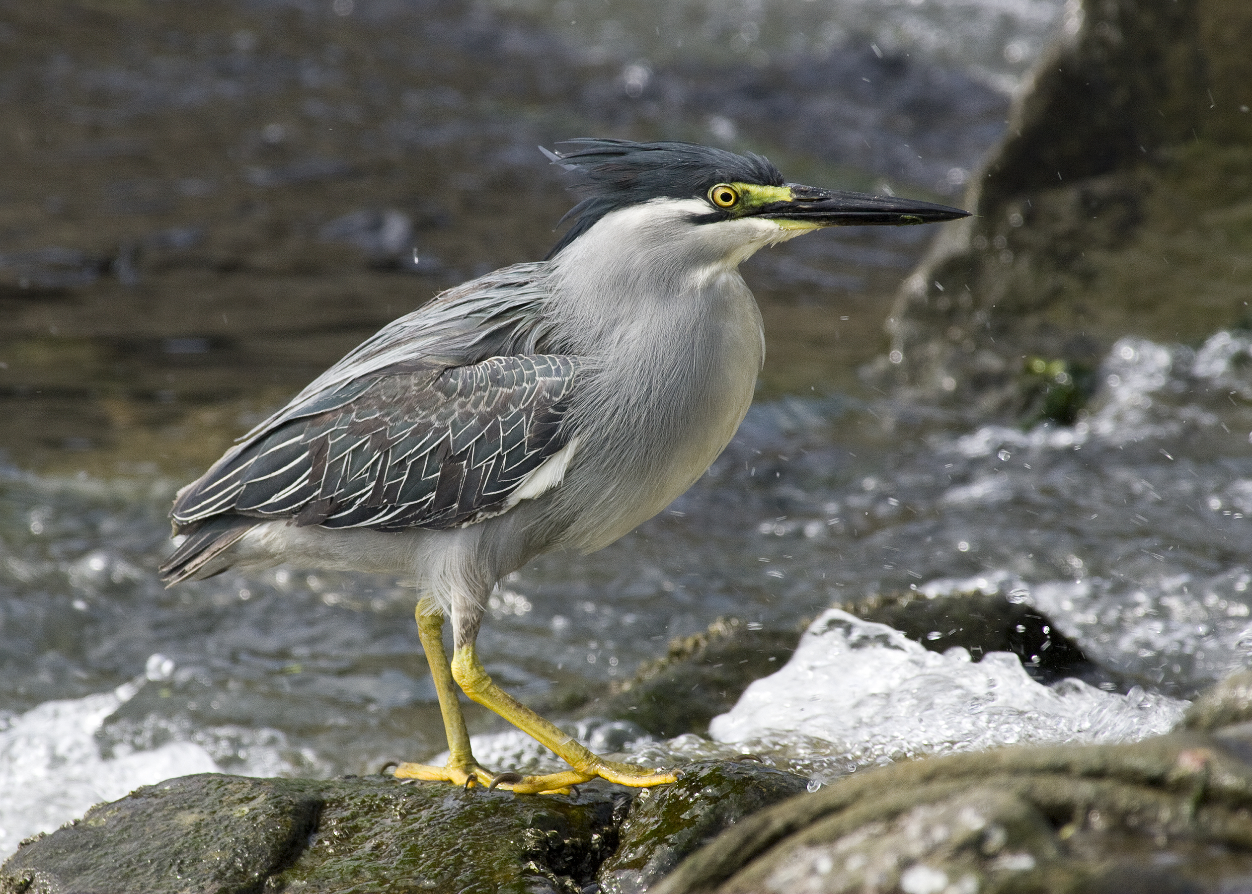 Butorides striatus amurensis at kanonji,kagawa